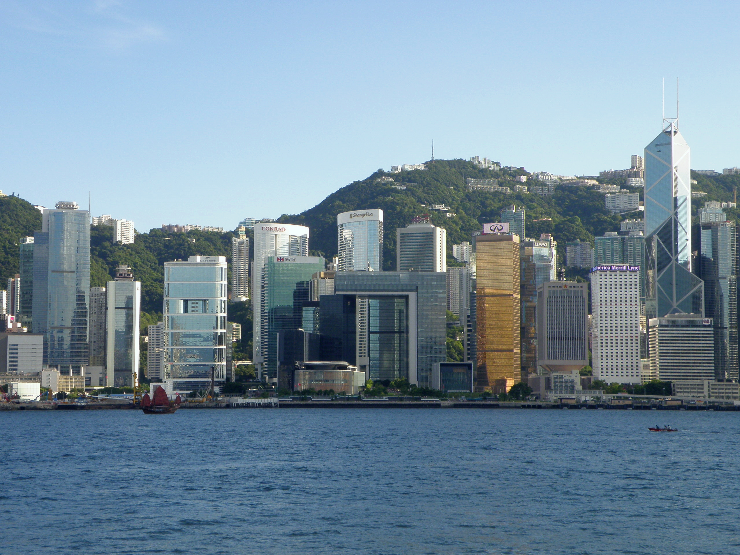 Admiralty in Hong Kong Island, Hong Kong.